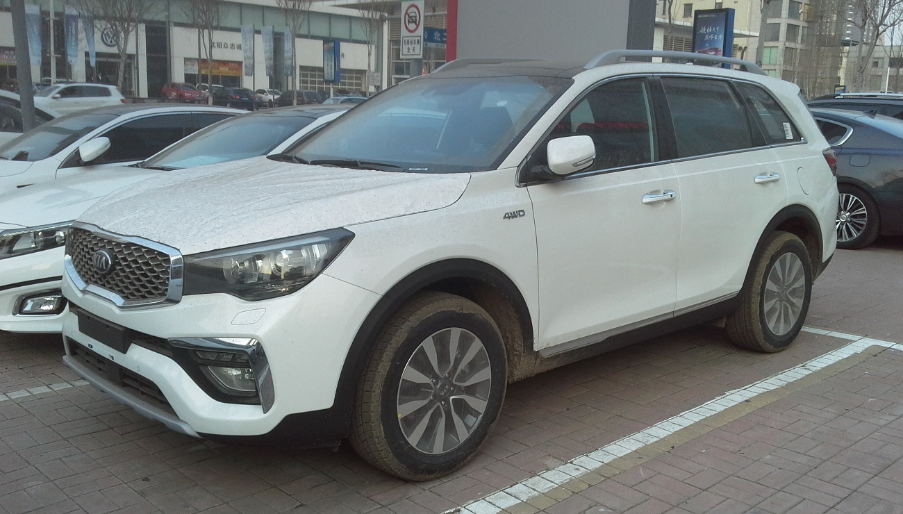 Kia KX7 photographed in Shenyang, Liaoning province, China.